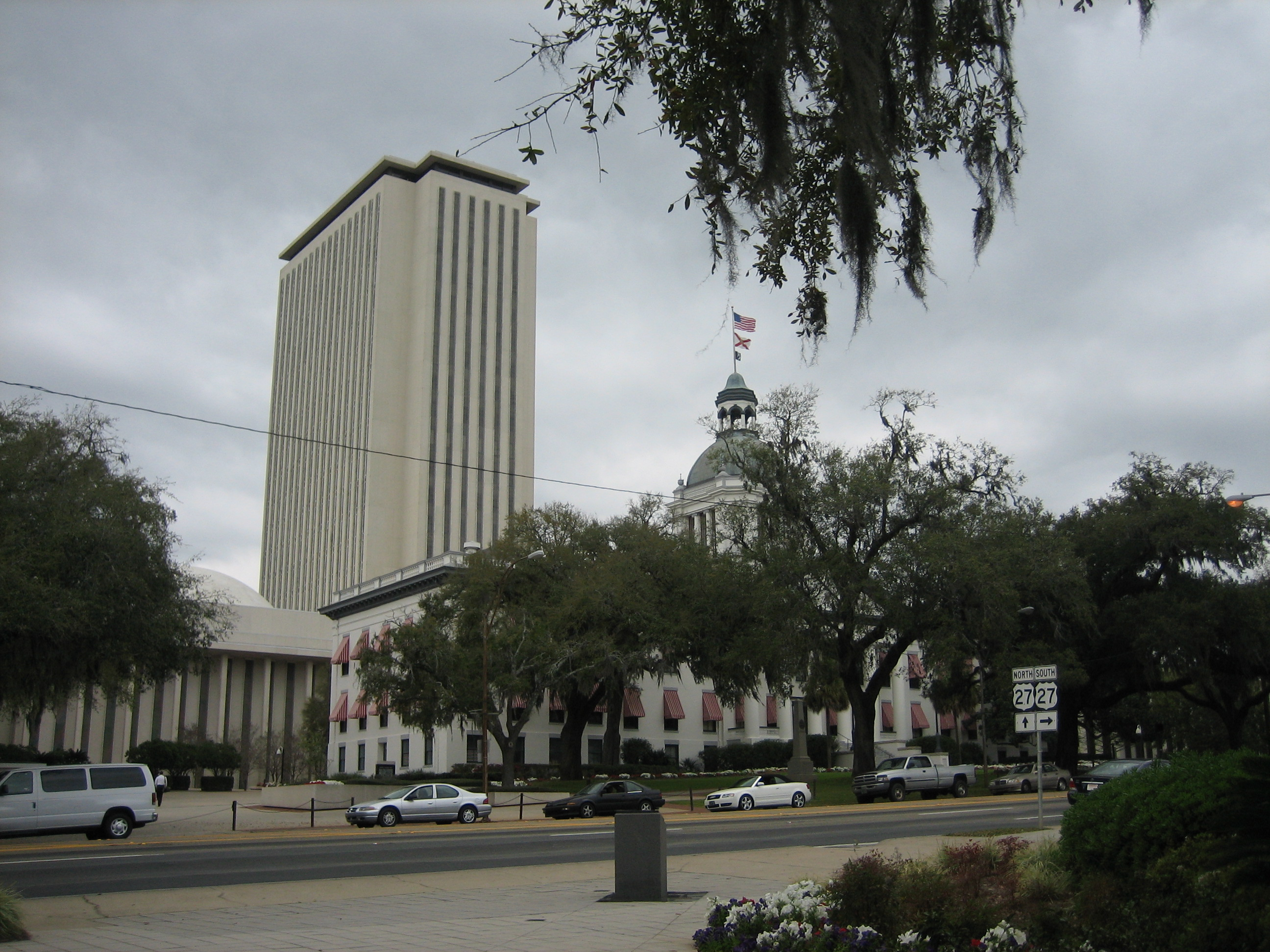 New and old Florida State Capitol buildings, Tallahassee. Photo by Infrogmation, March 2006